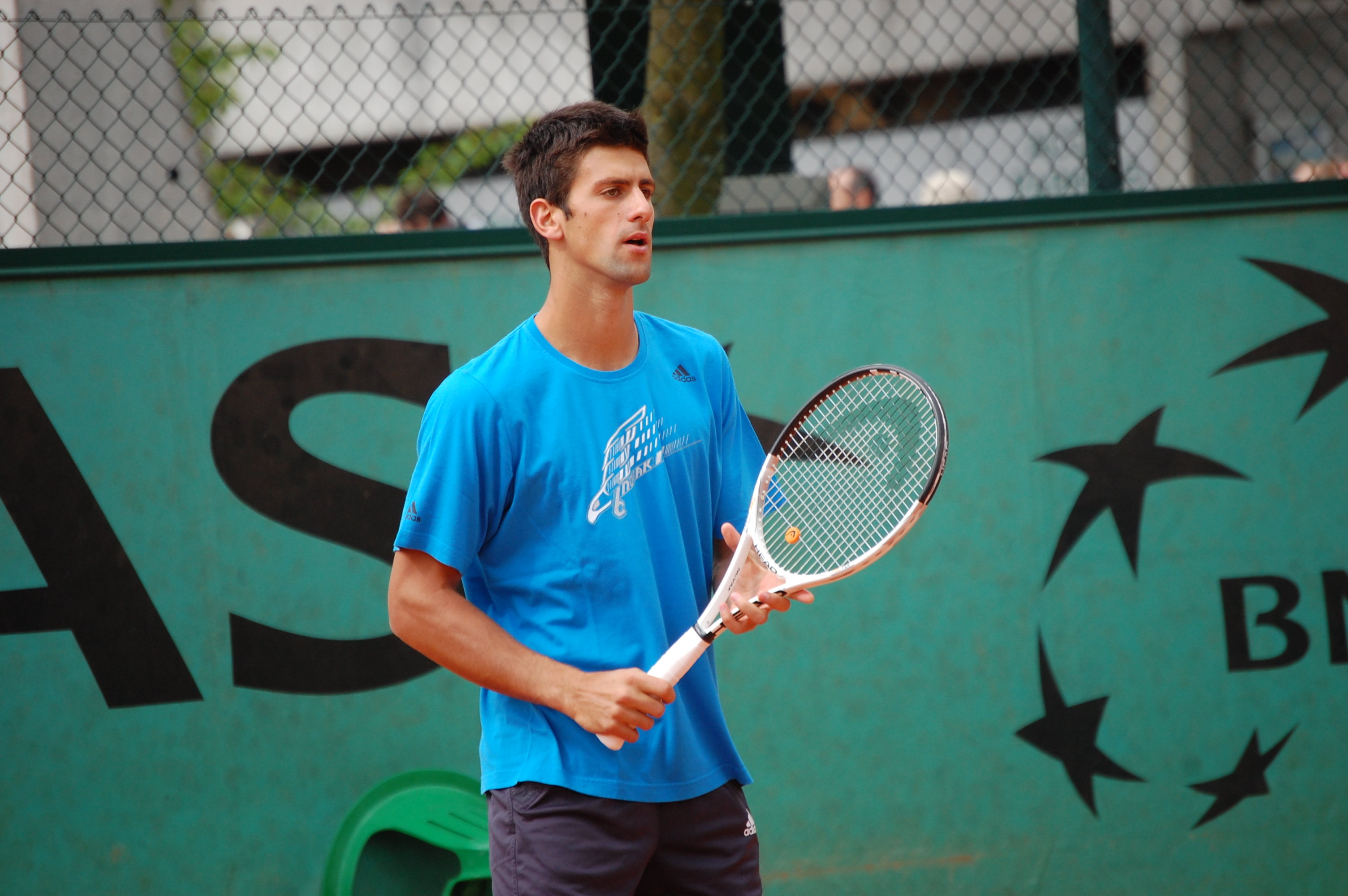 Novak Djokovic training in Roland Garros, during 2009 French Open